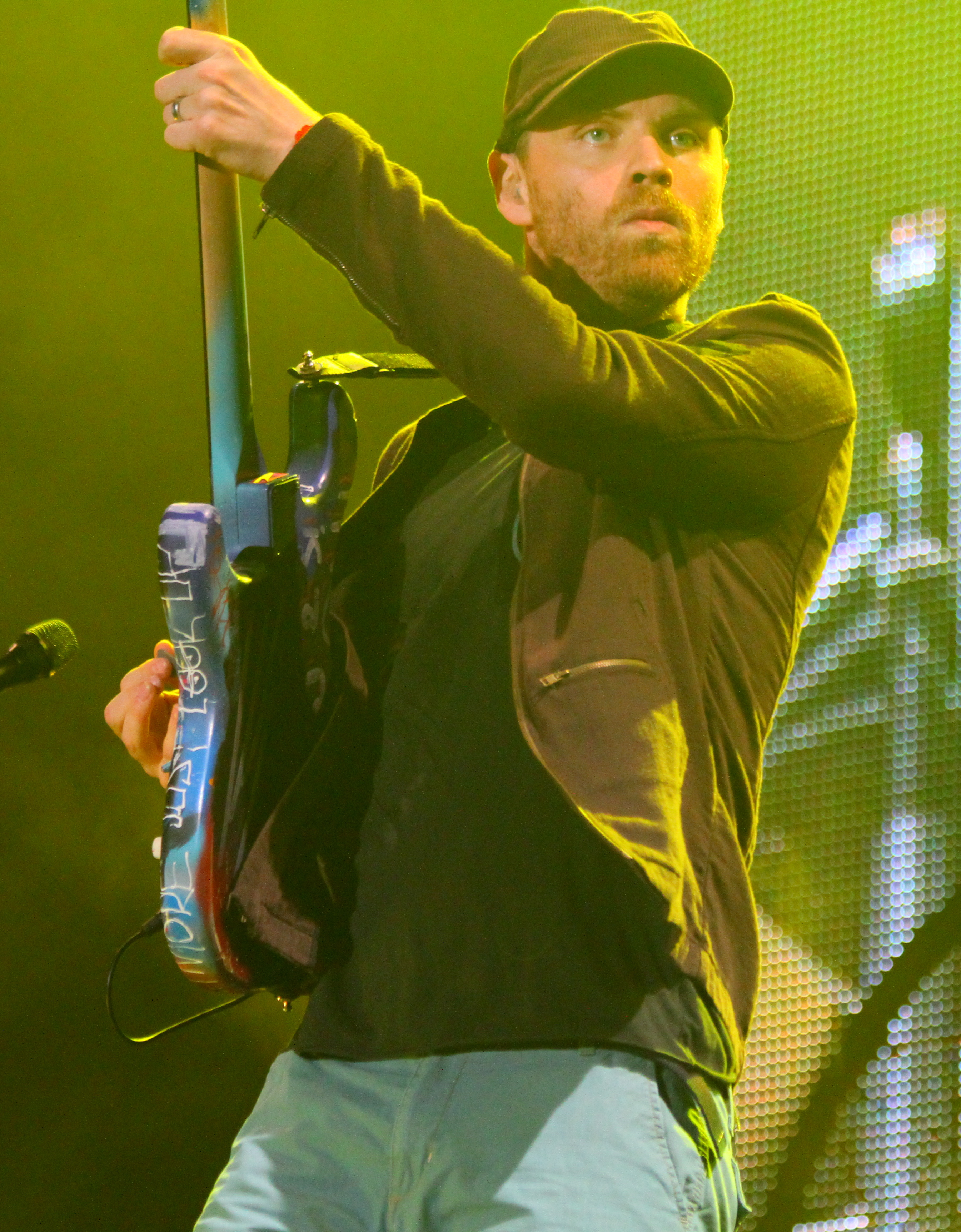 Jonny Buckland, performing with Coldplay, at the Naeba Ski Resort, Niigata, Japan, as part of the 2011 Fuji Rock Festival.